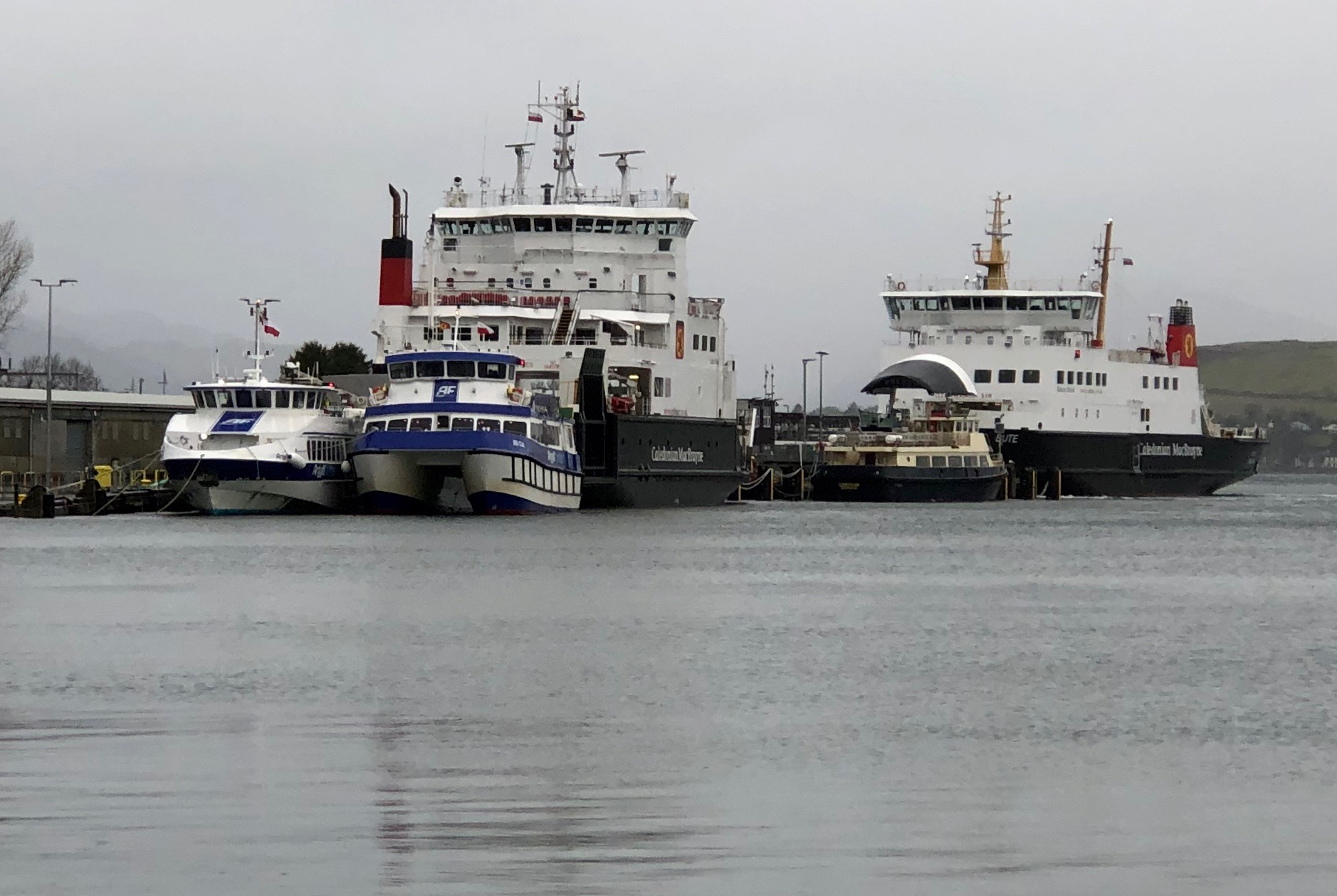 Gourock railway station and pier during Storm Erik, with MV Argyll Flyer, MV Ali Cat and MV Coruisk tied up at the pier while sailings to Dunoon were suspended, MV Chieftain tied up at the steps for the Kilcreggan service, and MV Bute arriving from Rothesay, diverted as Wemyss Bay pier was closed by the storm.